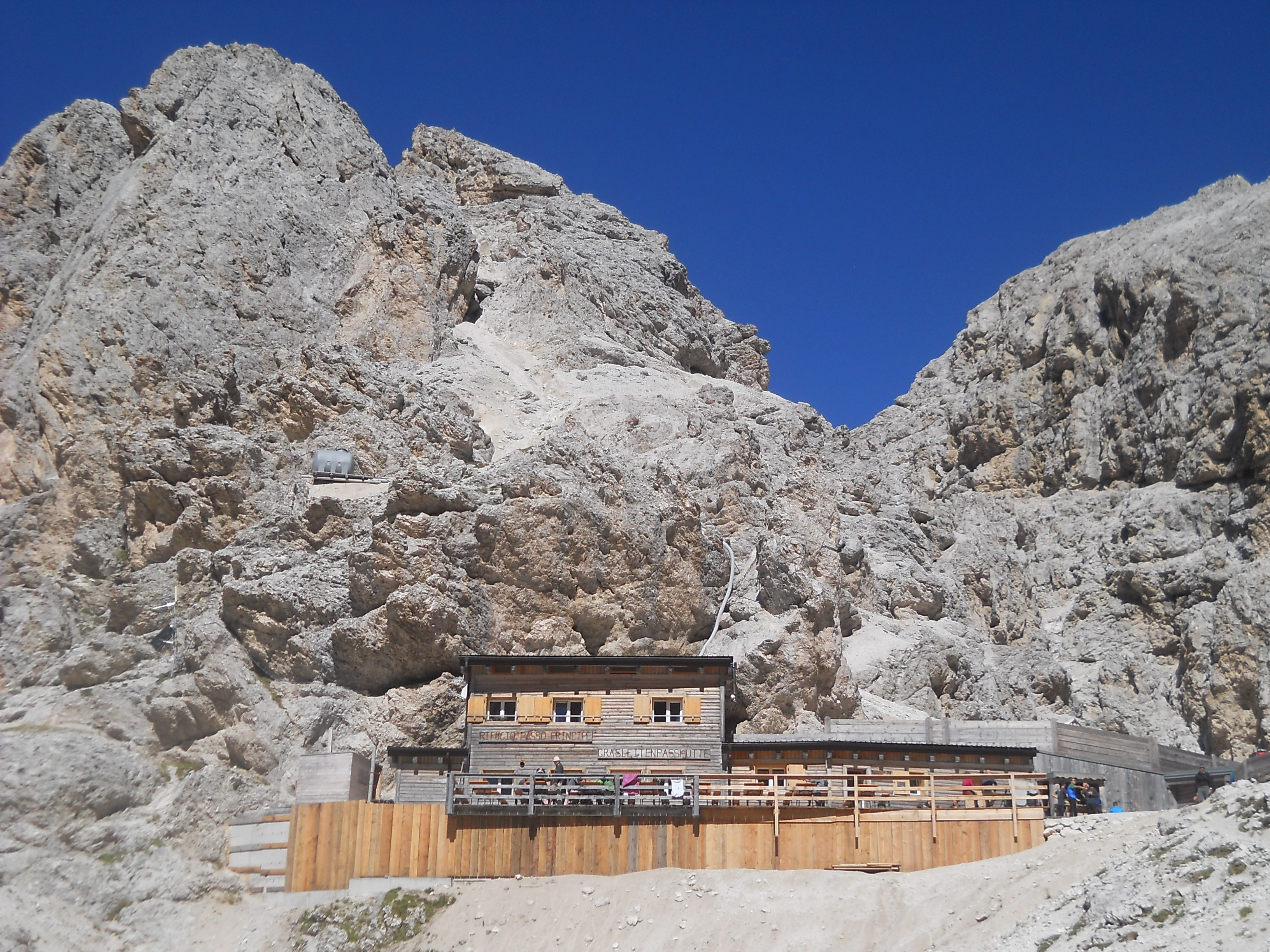 Rosengarten group